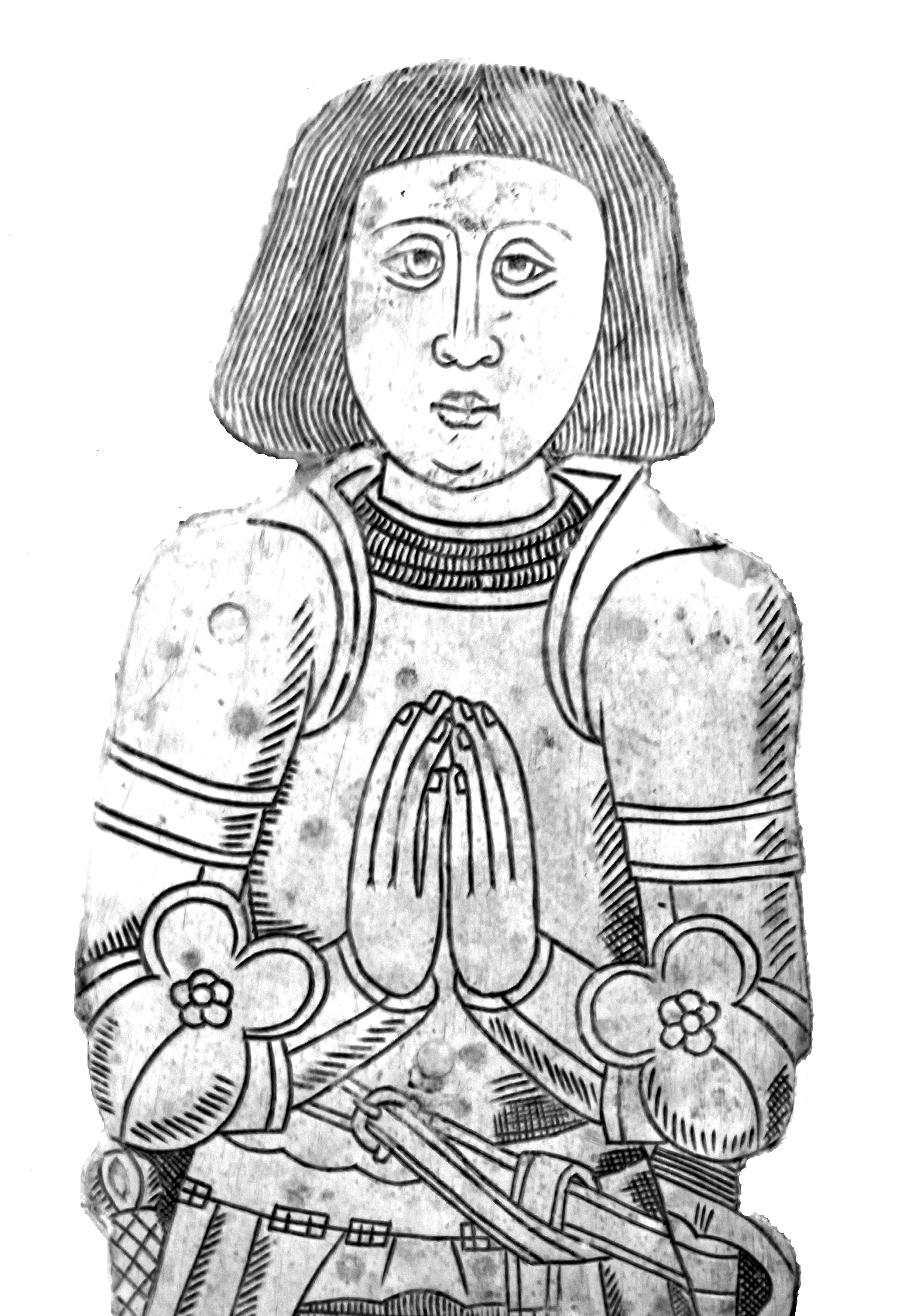 Monumental brass of Sir John Bassett (d.1528) of Umberleigh and Heanton Punchardon. On his chest-tomb between brasses of his two wives in Atherington Church, Devon